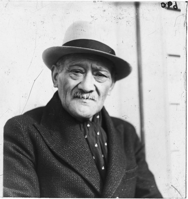 Portrait of Tahupotiki Wiremu Ratana, taken by Sam Dale circa 1930s.